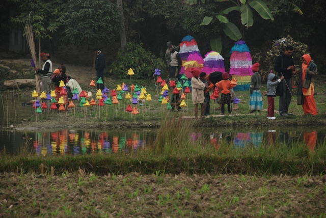 Annual Crack International Art Camp in Rahimpur, Kushtia, Bangladesh, 2009.